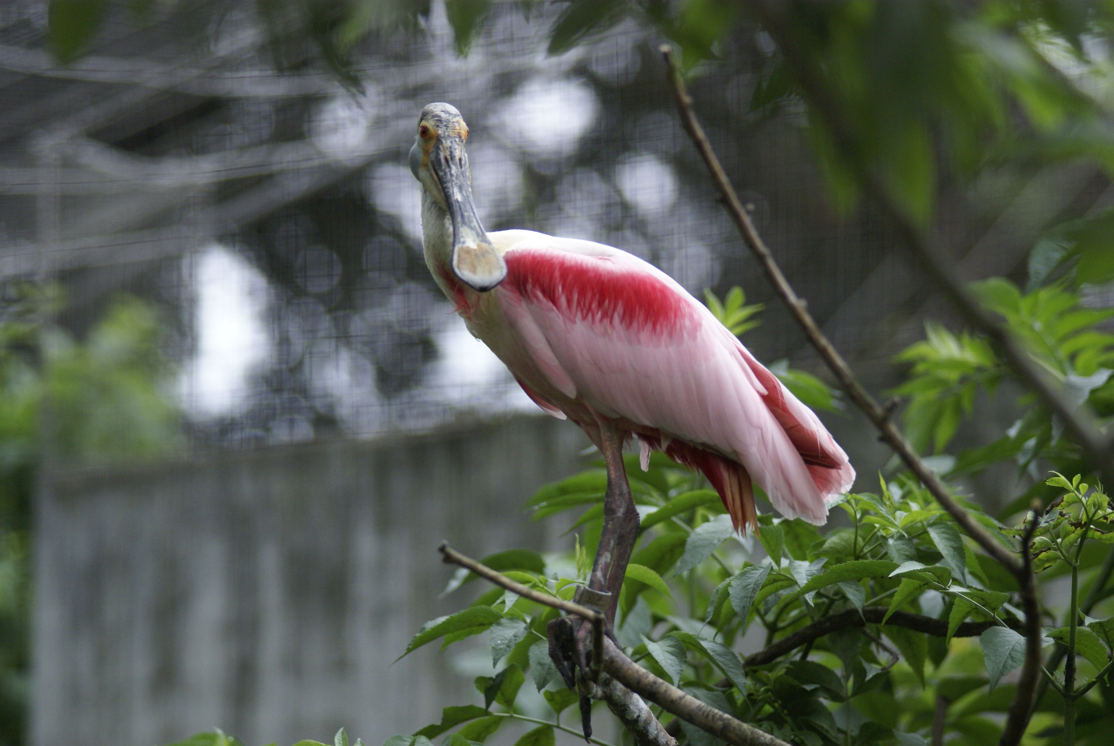 A Roseate Spoonbill at Wilhema, Stuttgart, Germany